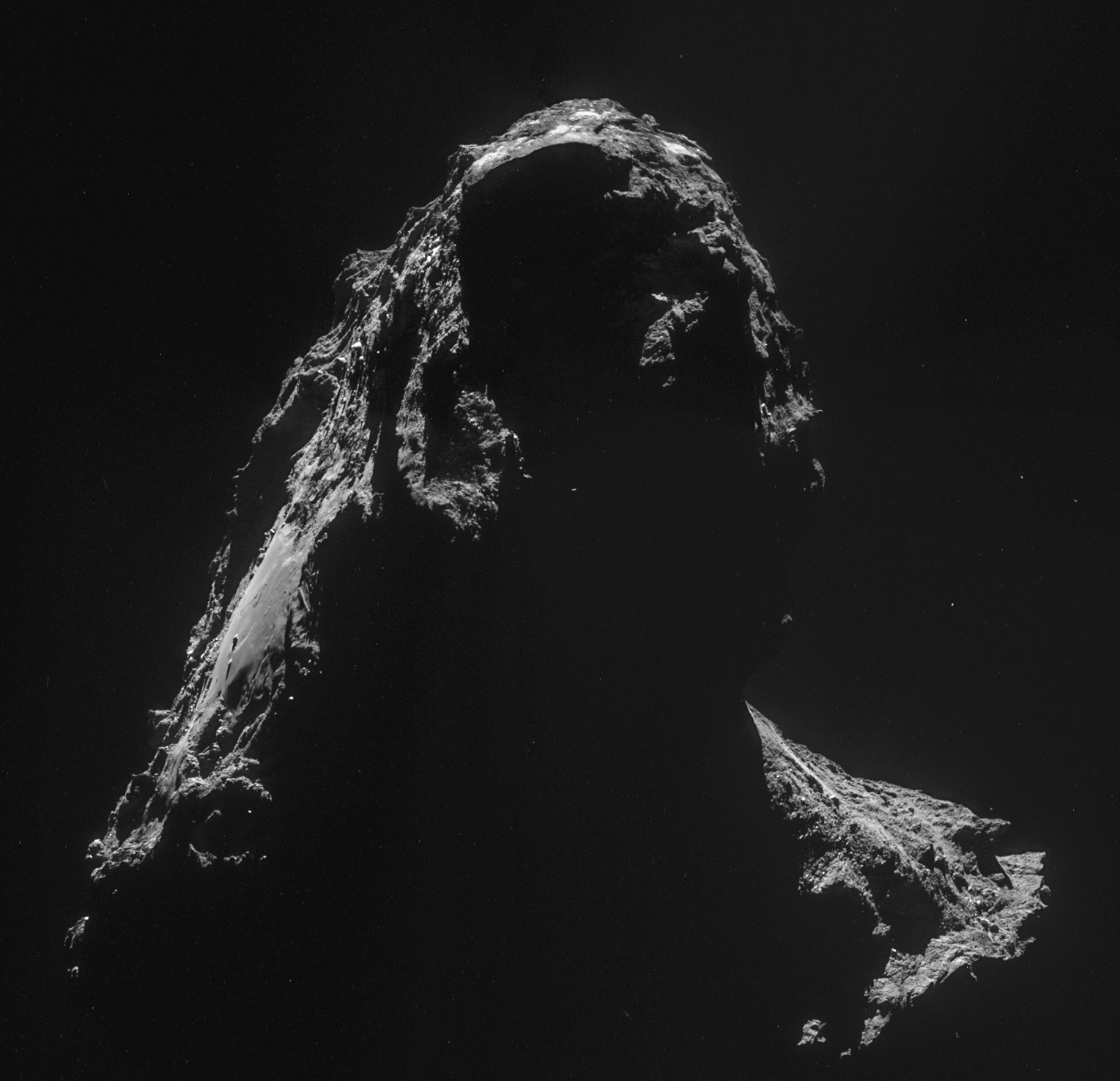 Mosaic of four images taken by Rosetta's navigation camera (NAVCAM) on 2 November 2014 at 33.4 km from the centre of comet 67P/Churyumov-Gerasimenko – about 31.4 km from the surface. The image scale is 2.68 m/pixel. The images used for this mosaic were taken in sequence as a 2×2 raster over a short period af about twenty minutes, meaning that there is some motion of the spacecraft and rotation of the comet between the images. The images have been cleaned to remove the more obvious bad 'pixel pairs' and cosmic ray artefacts. The mosaic has been slightly rotated and cropped and covers 4.1 x 4.1 km: some contrast enhancement has been applied. The four individual images making up the mosaic are available via the blog : CometWatch – 2 November